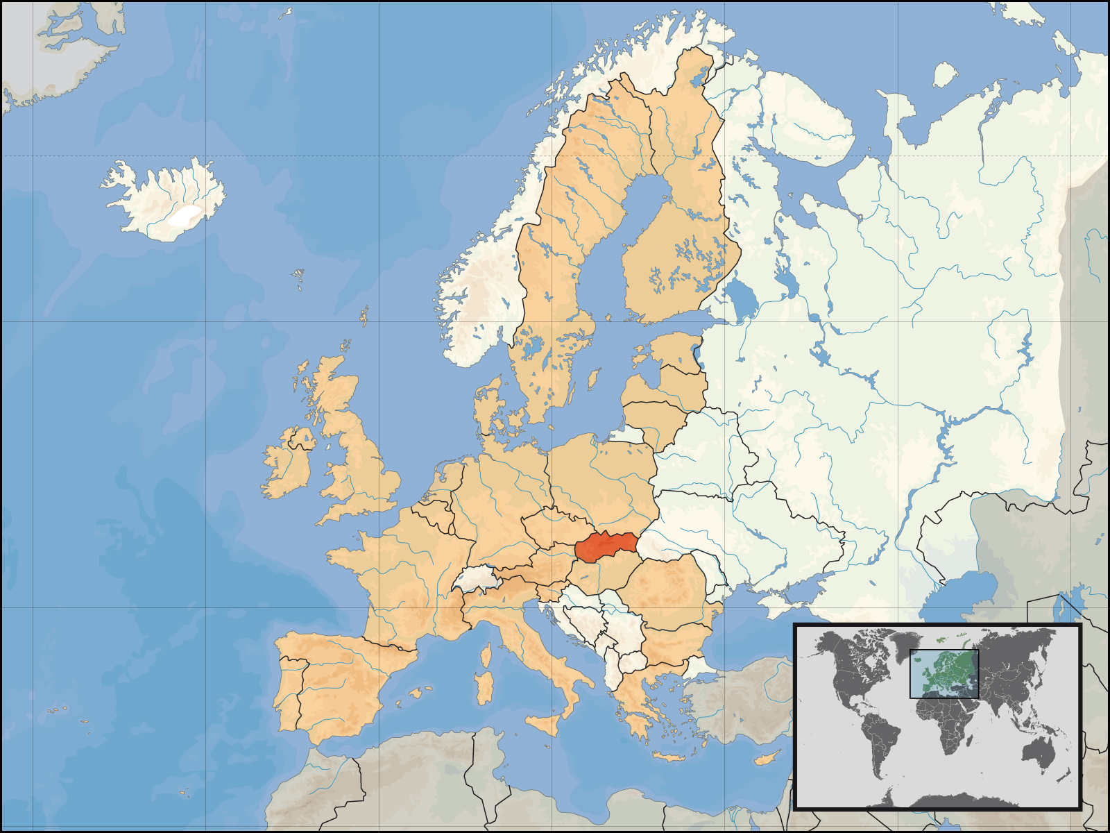 Location of Slovakia within Europe and the European Union on the 1st of January 2007.